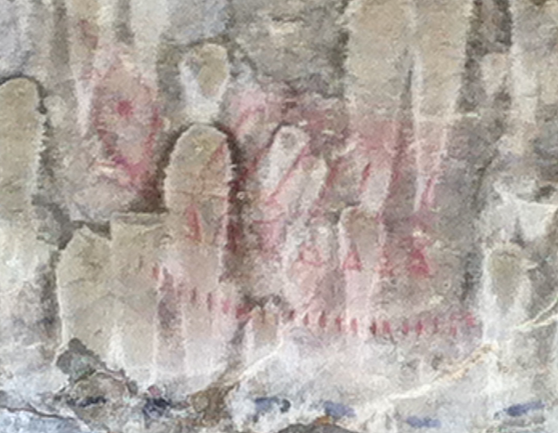 An example of a faded pictograph at Pictograph Cave near Billings, MT.